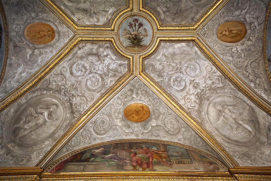 Camerino Farnese Ceiling